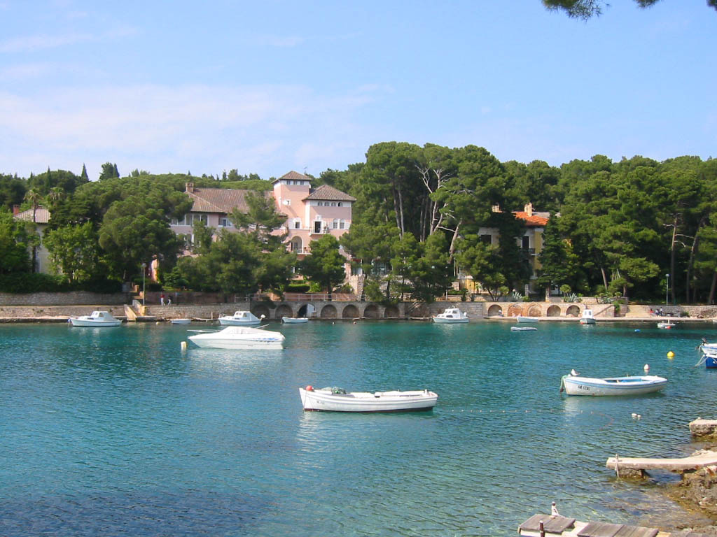 Island of Lošinj, Croatia photo:Ziga 10:55, 16 April 2007 (UTC)